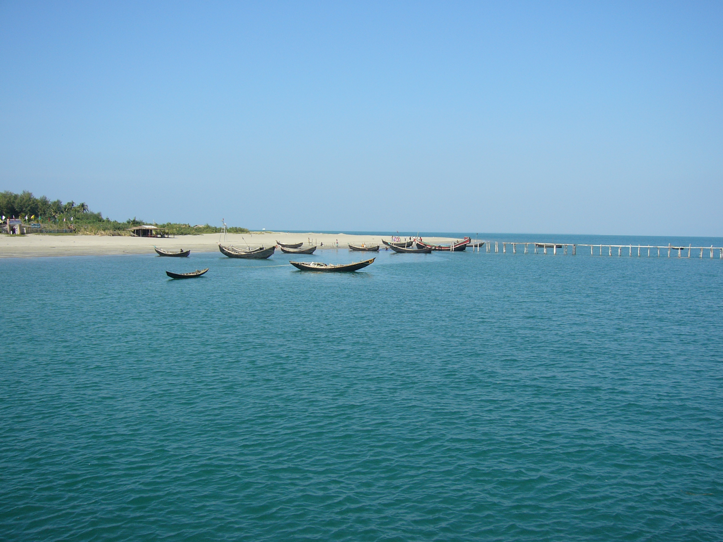 Boats near St. Martin's Island, Bangladesh